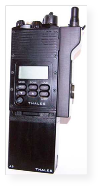 MELANIE attached to MBITR